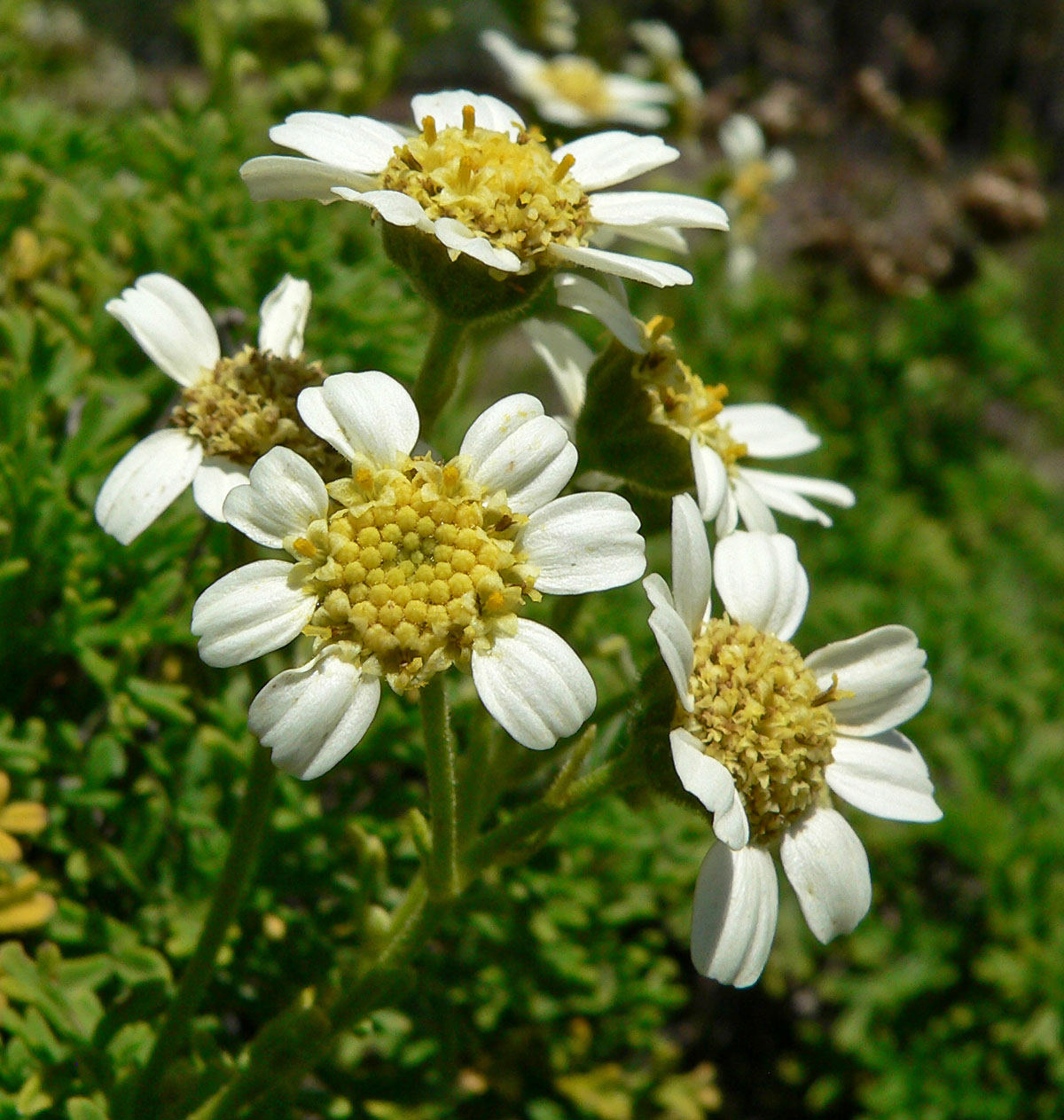 Bahia ambrosioides at the University of California Botanical Garden, Berkeley, California